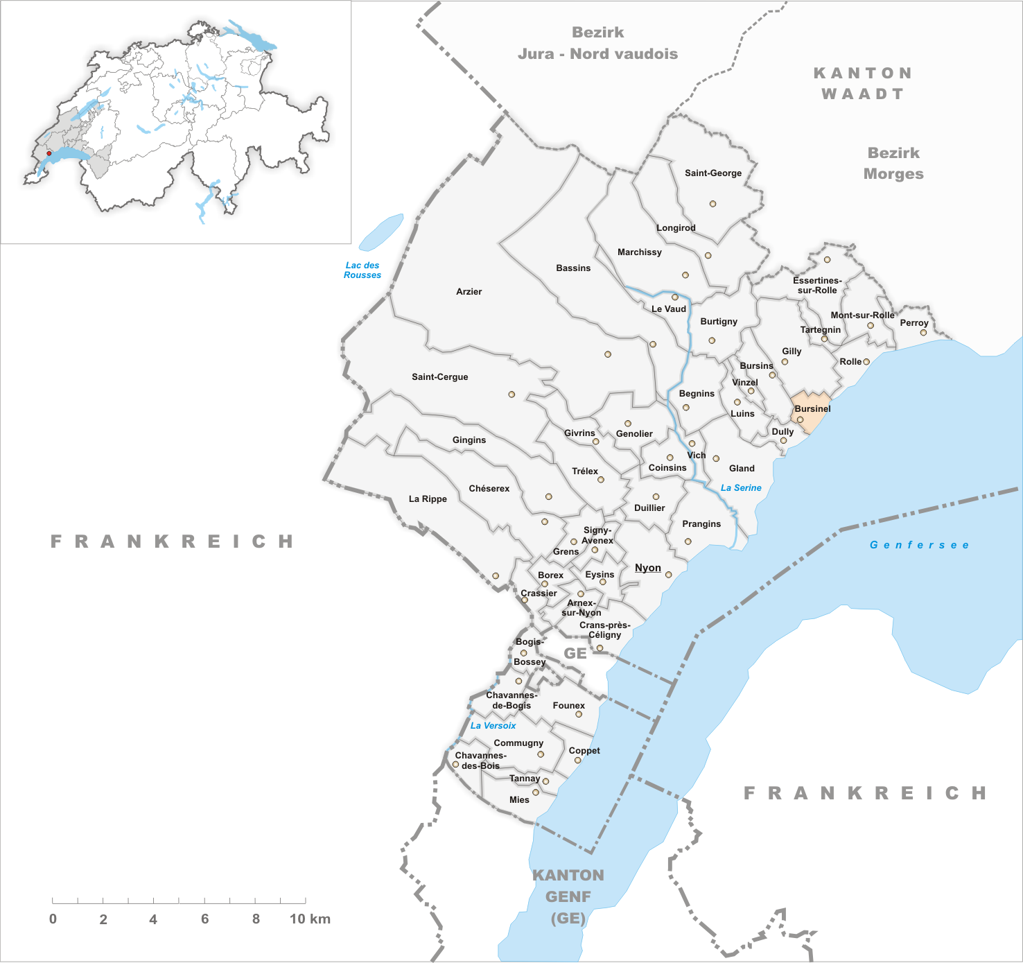 Municipality Bursinel